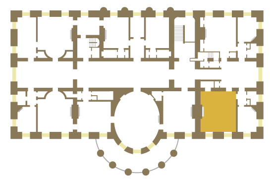 Floor plan of the White House second floor showing the location of the Lincoln Bedroom. 21.02.07, Jim Hood